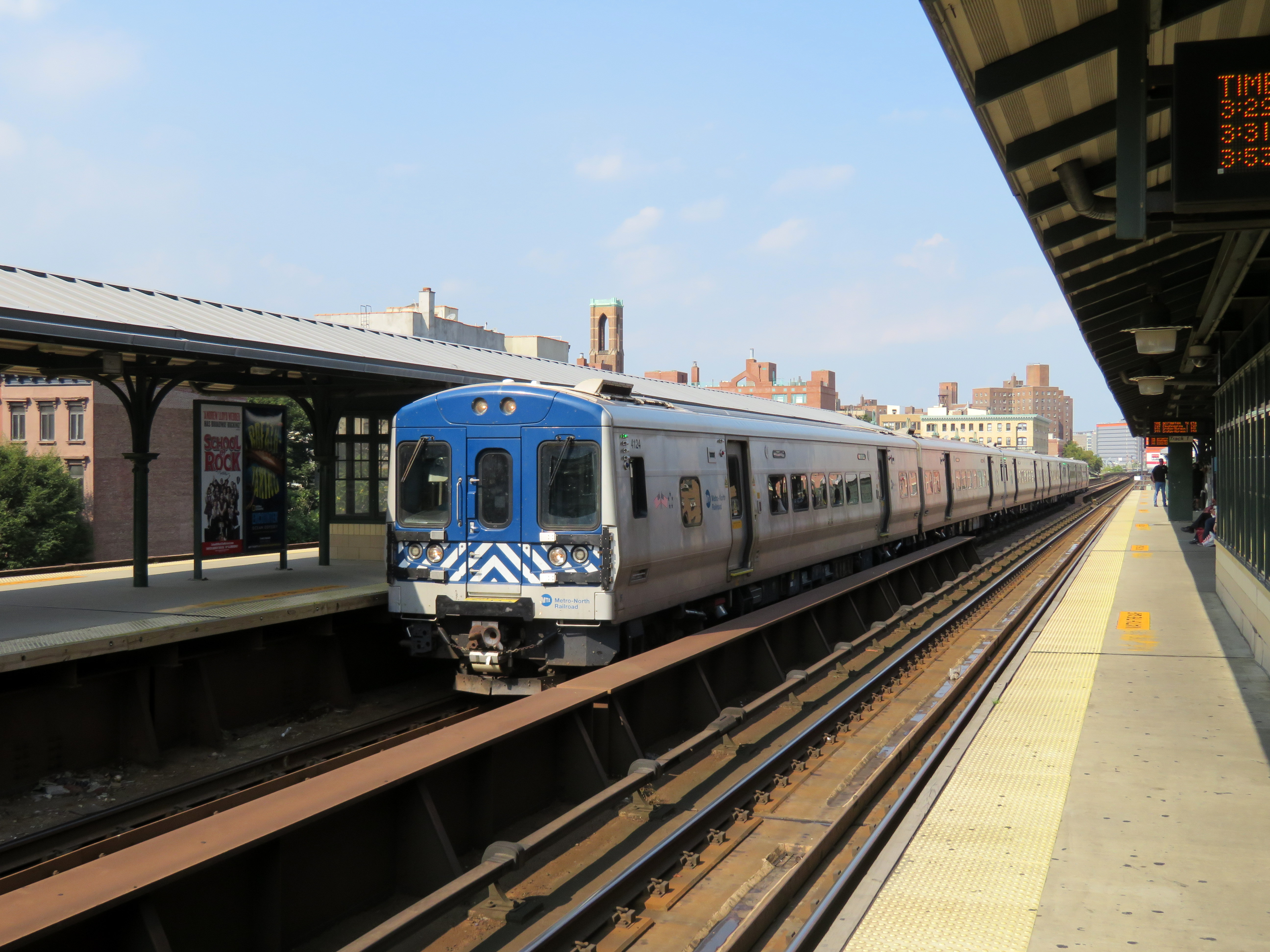 A Grand-Central bound train (either a Crestwood local on the Harlem Line, or a Croton-Harmon local on the Hudson Line) at Harlem–125th Street station in September 2018